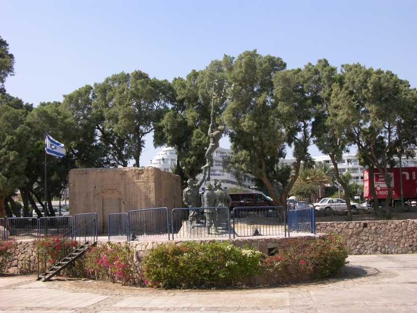 Eilat, Israel Umm RashRash, police station